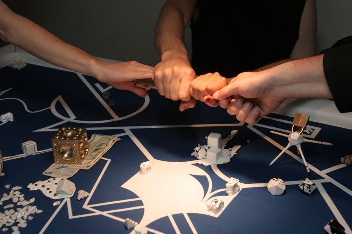 image of Talus game table